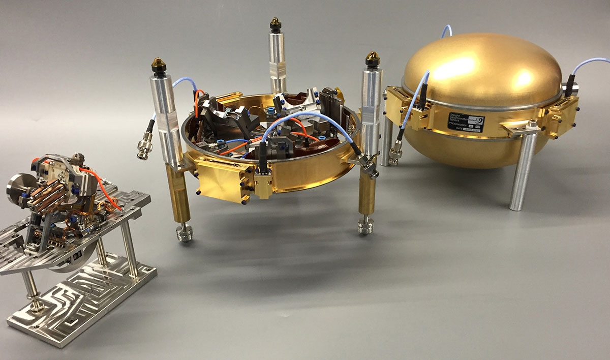 InSight Spacecraft : Some SEIS components before final assembly - a very broad band sensor, three-legged leveling fixture to hold sensors, vacuum vessel